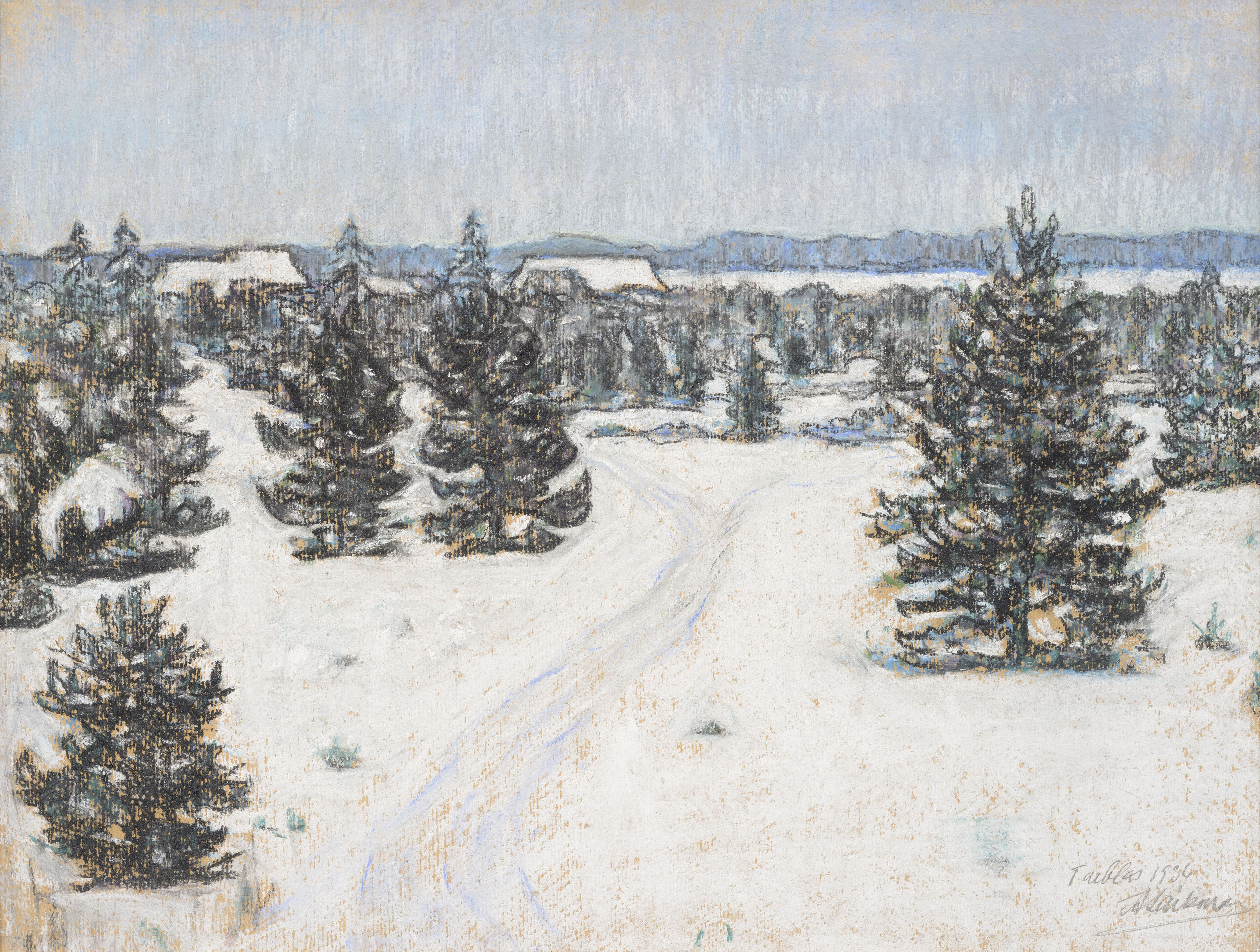 Ants Laikmaa "Taebla Landscape"; 1936; pastel/paper; 37.0 x 50.5 cm.